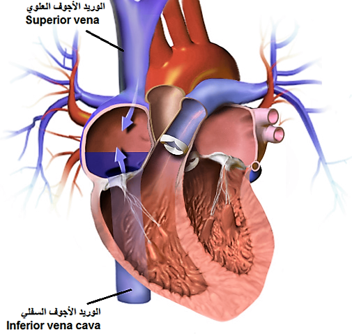 A medical illustration depicting the vena cava